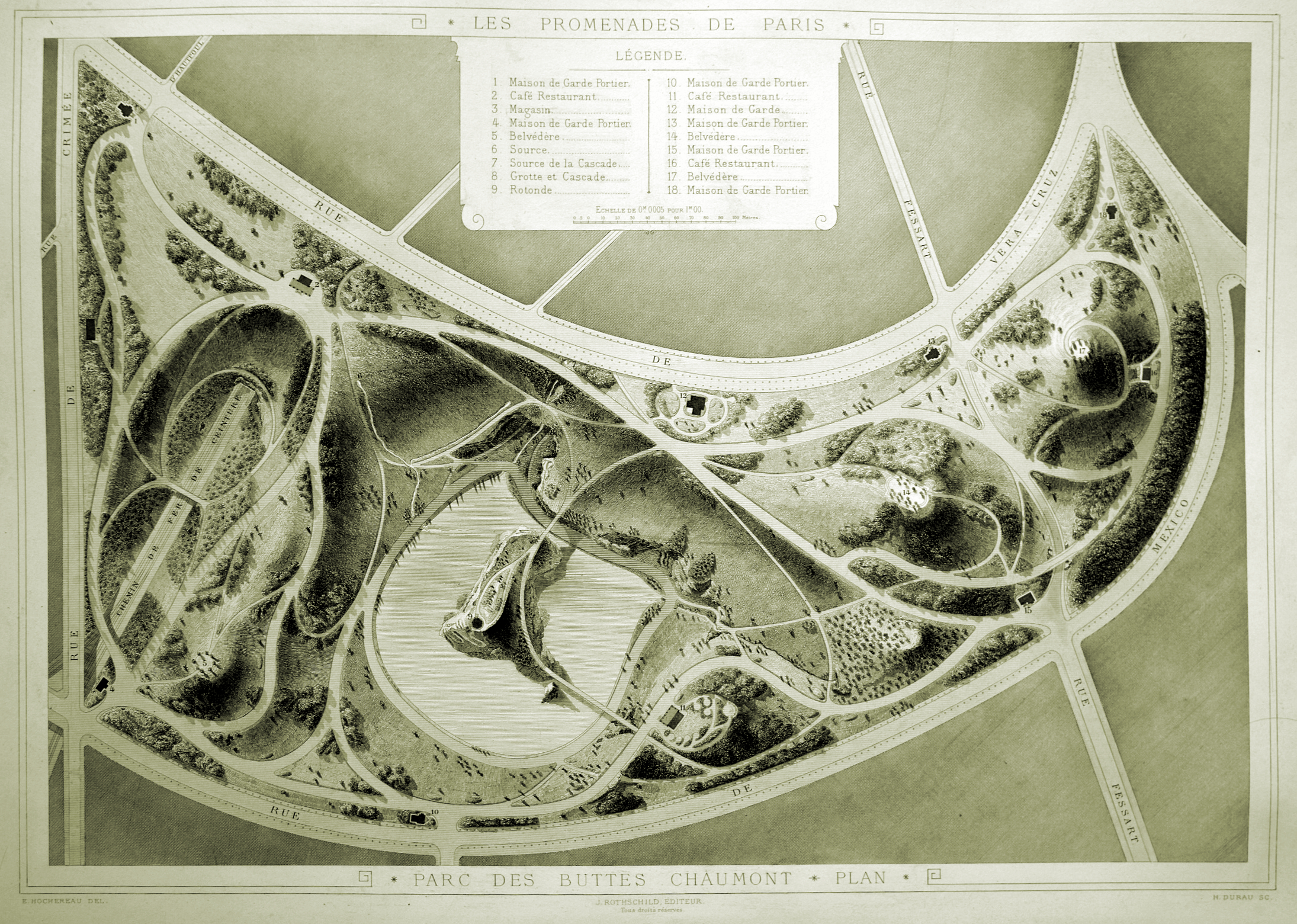 Plate of the Parc des Buttes-Chaumont, Paris, France. from the book: Alphand, Adolphe: Les Promenades de Paris. Paris 1867-1873.